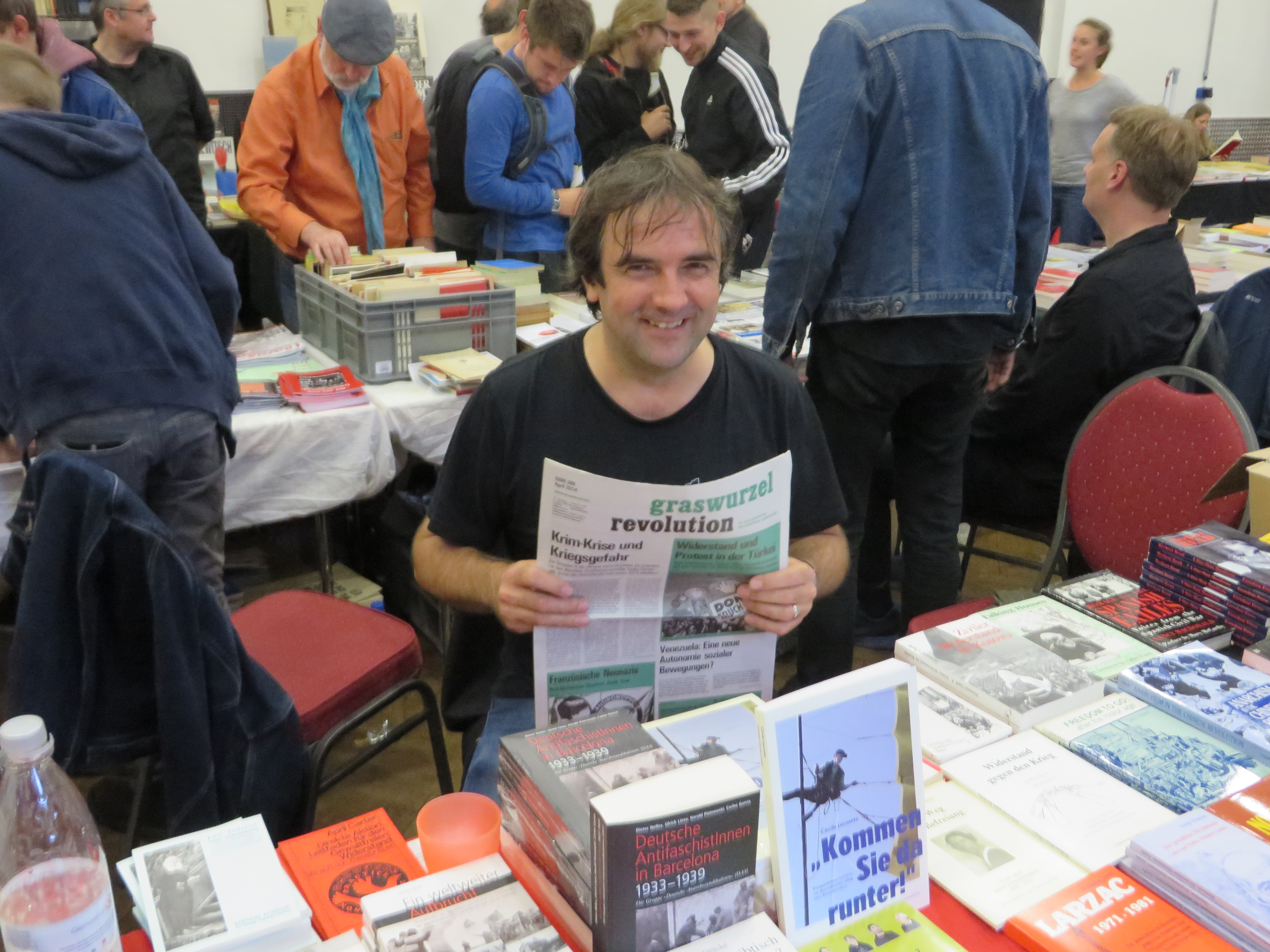 Bernd Drücke at Libertarian media fair (LiMesse) 2014 in cultural center Zeche Carl in Essen, GermanyEsperanto: Bernd Drücke ĉe Liberecana komunikilfoiro (LiMesse) 2014 en kulturdomo Zeche Carl en Essen, Germanio